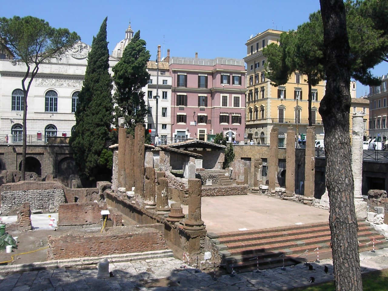 "taken by me, but it's not at an article, I uploaded it so I could ask what the ruins were called" - said Adam Carr. The photo is public domain so if there is an article it can be attached to, feel free. Adam 02:00, 28 Mar 2005 (UTC). It is the Largo di Torre Argentina, Roman ruins in Rome, on the Campus Martius, the place where Julius Caesar was stabbed. Temple A (to Juturna), with part of Temple B on the left. On the back, the modern Teatro Argentina.